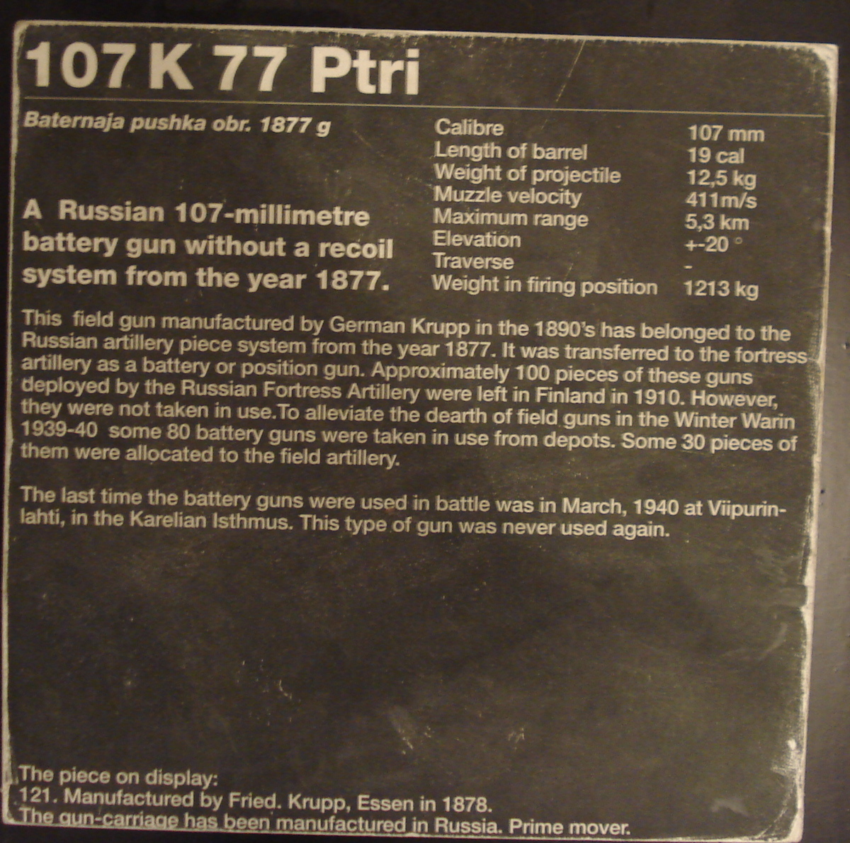 Museum description of Russian 107 mm gun Model 1877, displayed in Finnish Artillery Museum. This particular gun was manufactured by German Krupp in 1878. Photo taken on June 18, 2006. Source: Photo by me, User:Balcer.